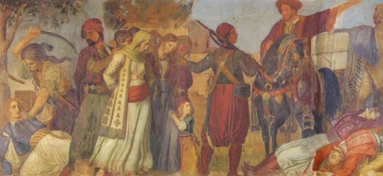 Turkish military under Ibrahim in Peloponnese (1825-1828). Detail of fresco in the Greek Parliament.